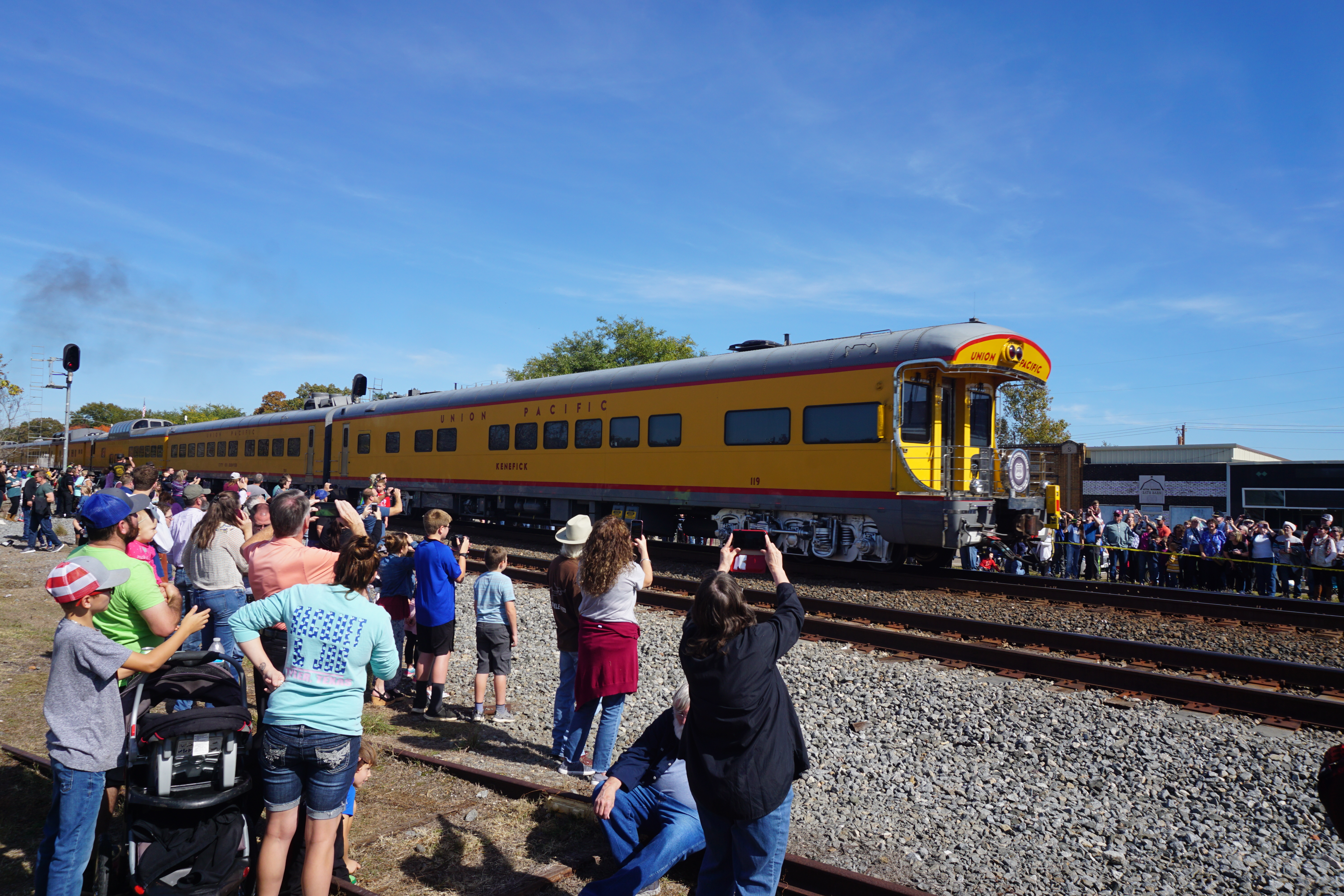 Union Pacific 4014 during the Great Race Across the Southwest in Overton, Texas (United States).